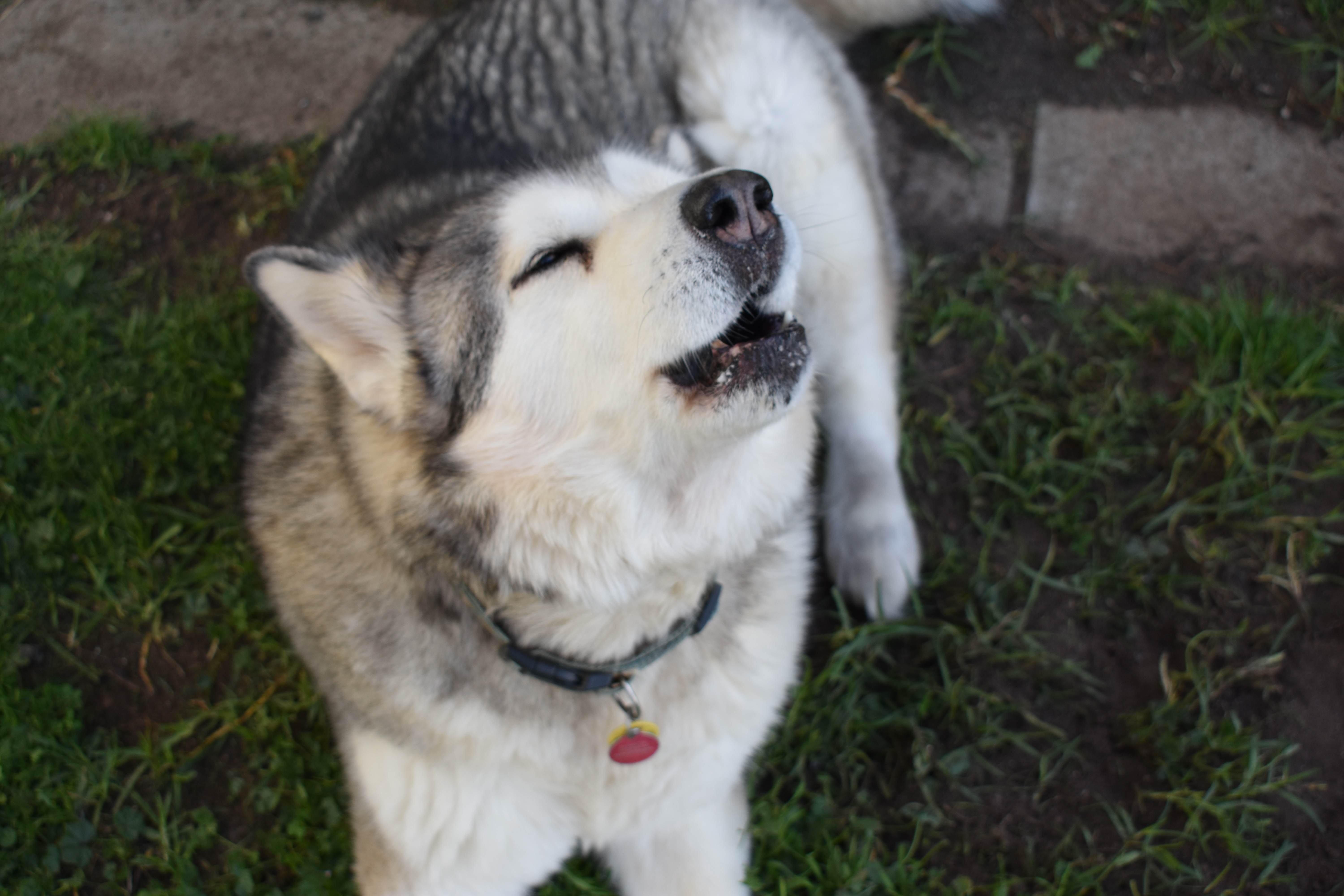 grey and white alaskan malamute dog